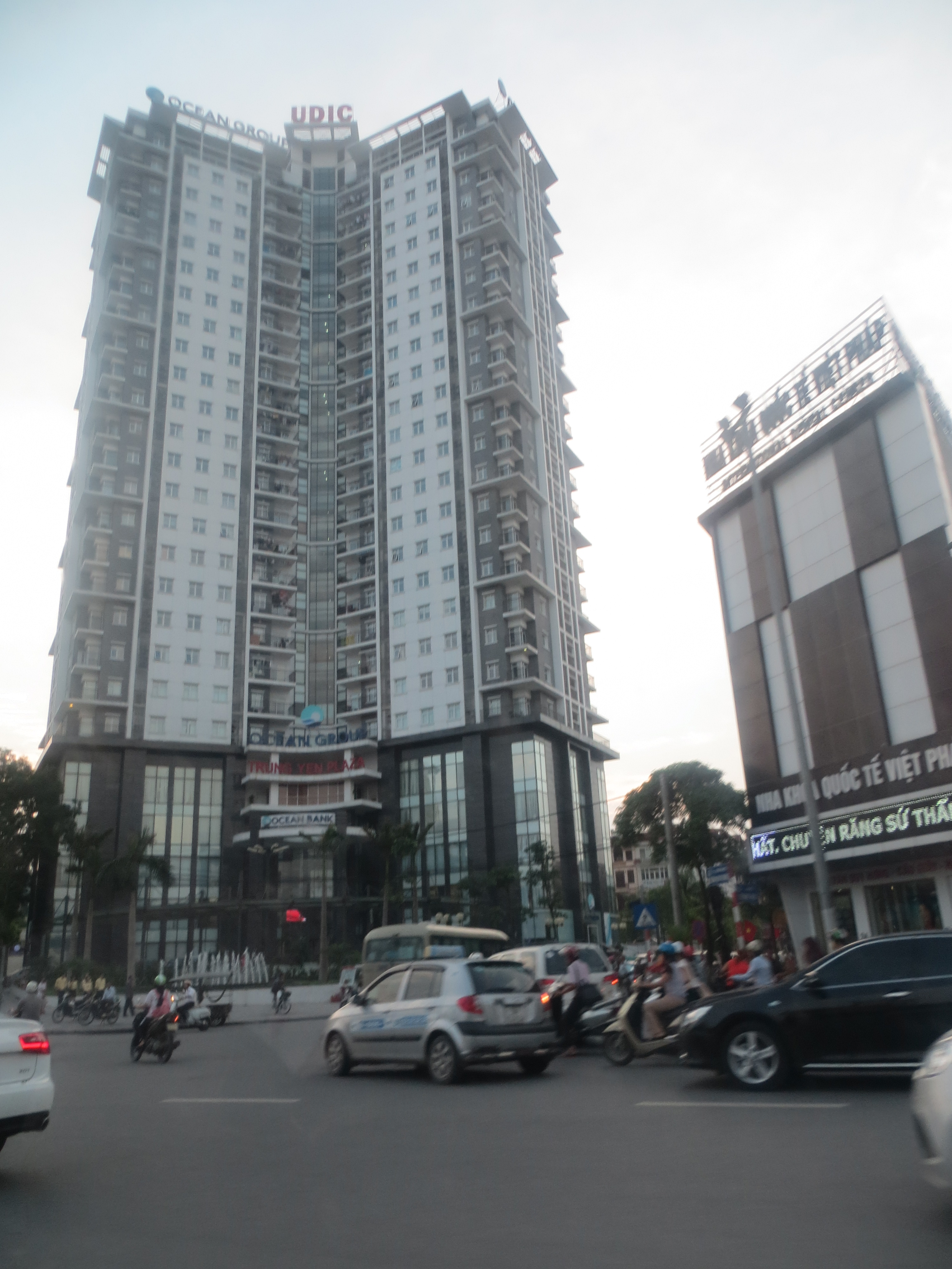 Trần Duy Hưng Street, Hanoi, Vietnam.